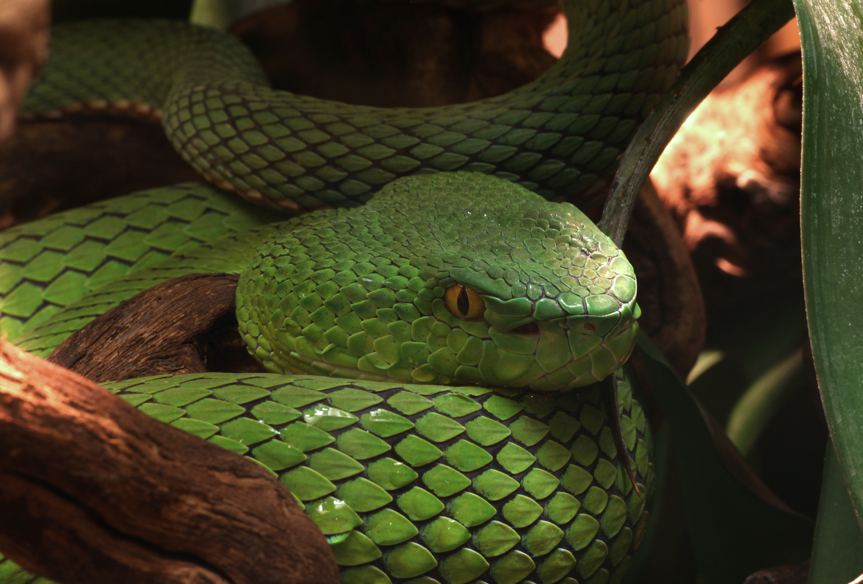 Bamboo Viper, Chinese Tree Viper, Chinese Green Tree Viper Trimeresurus stejnegeri, Family: Viperidae, Location: Germany, Ulm, Zoological Garden